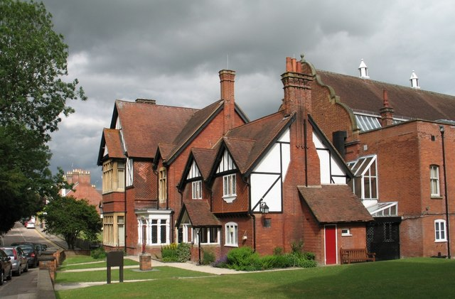 The Natural History Museum at Tring. The Natural History Museum at Tring - formerly the Walter Rothschild Zoological Museum - was constructed in 1889 to a design by William Huckvale (1848-1936) to house the private collection of mounted specimens and library collected by Lionel Walter (2nd Baron) Rothschild. First opened to the public in 1892, the Museum is home to one of the finest collections of stuffed mammals, birds, reptiles and insects in the United Kingdom; its extensive library is available to researchers. The Museum is located in Akeman Street, Tring, and is well worth a visit (at the time of writing, admission is free). The Museum's main entrance (now in Akeman Street) was originally in Park Street, shown here. The end of the exhibition hall is on the right of the picture. See also . . . . 1611688; 1480842; 1480844; 1484417; 1483625